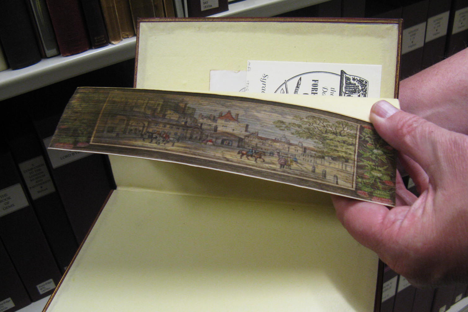 fore-edge painted book